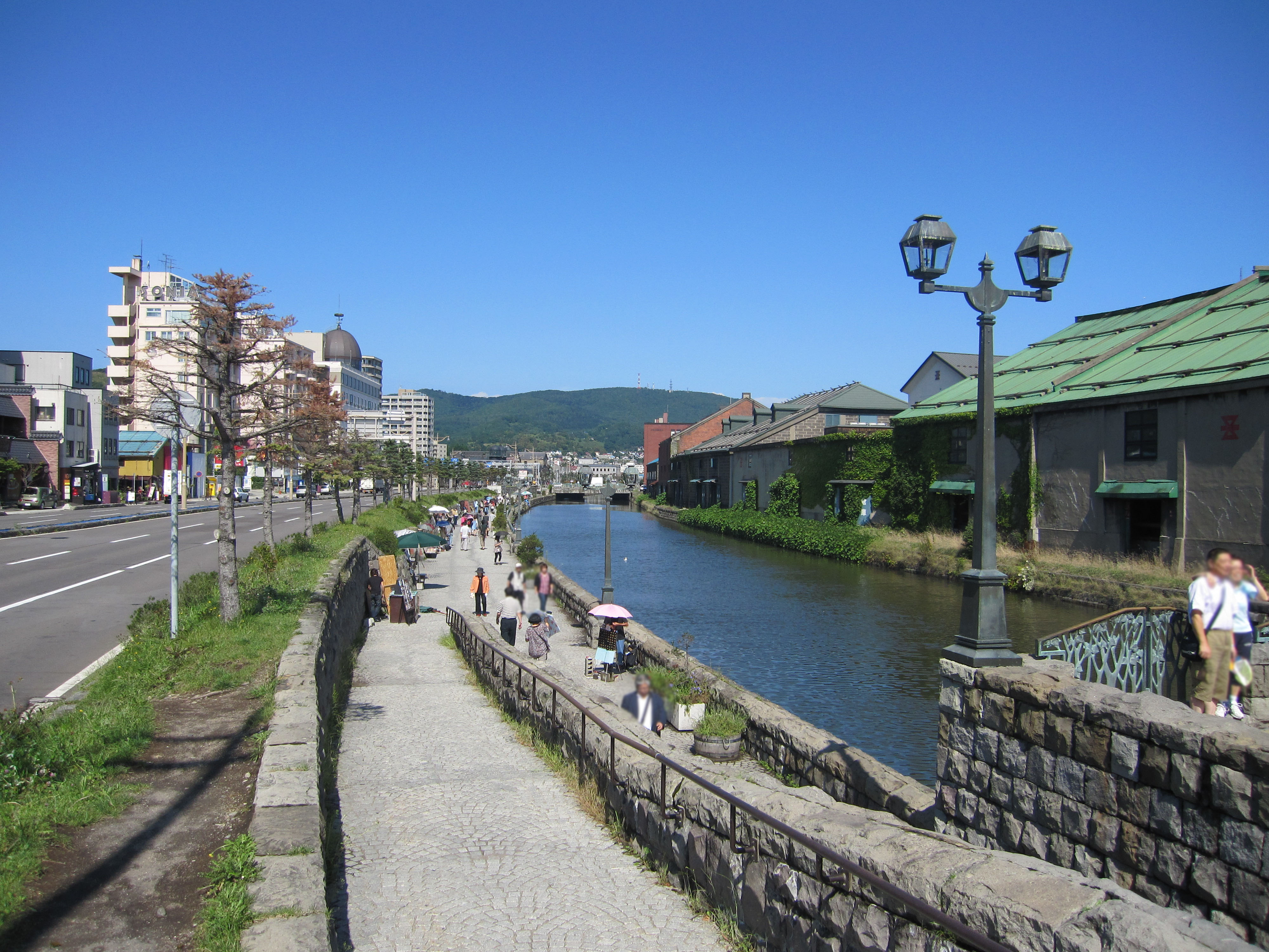 Otaru Canal Dusk in summer